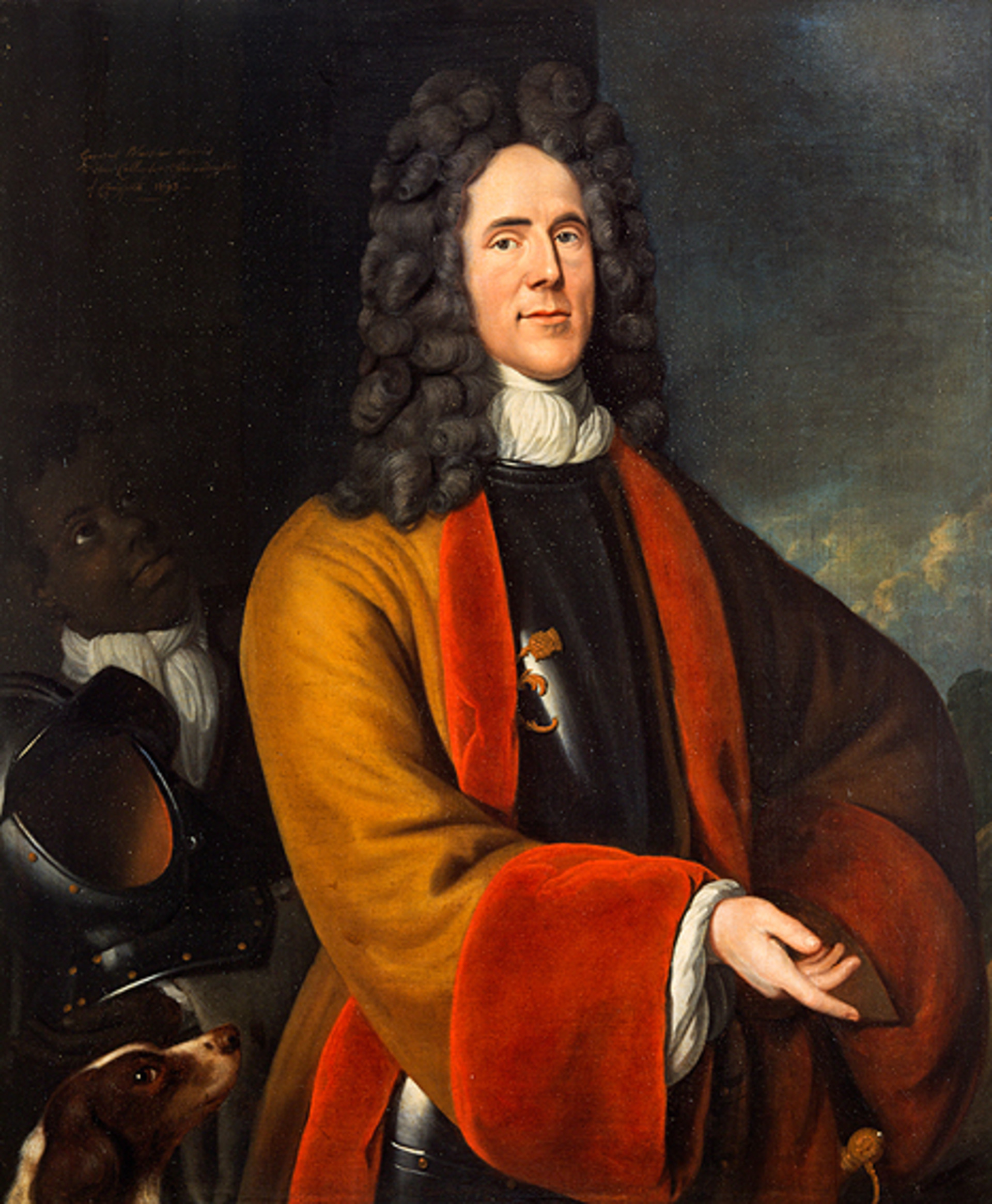 Portrait of Lieutenant-Colonel John Blackadder (or Blackader), 1664-1729; published 1824. Etching "from an original picture", which if painted from life would be early eighteenth century.